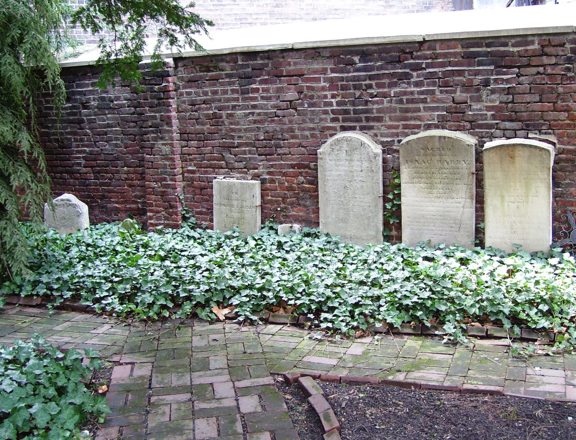 The Second Cemetery of the Spanish and Portuguese Synagogue Shearith Israel at 72-76 West 11th Street between Fifth and Sixth Avenues in the Greenwich Village neighborhood of Manhattan, New York City, was established in 1805, when there was no more room in the First Cemetery at Chatham Square. The city took some of it by eminent domain in 1830, in order to widen 11th Street, which left the cemetary with this small triangular plot on the south side of 11th, and an even smaller and unusable plot on the north side. It is located within the Grenwich Village Historic District. (Source: NYCLPC Greenwich Village Historic District Designation Report vol. 1)